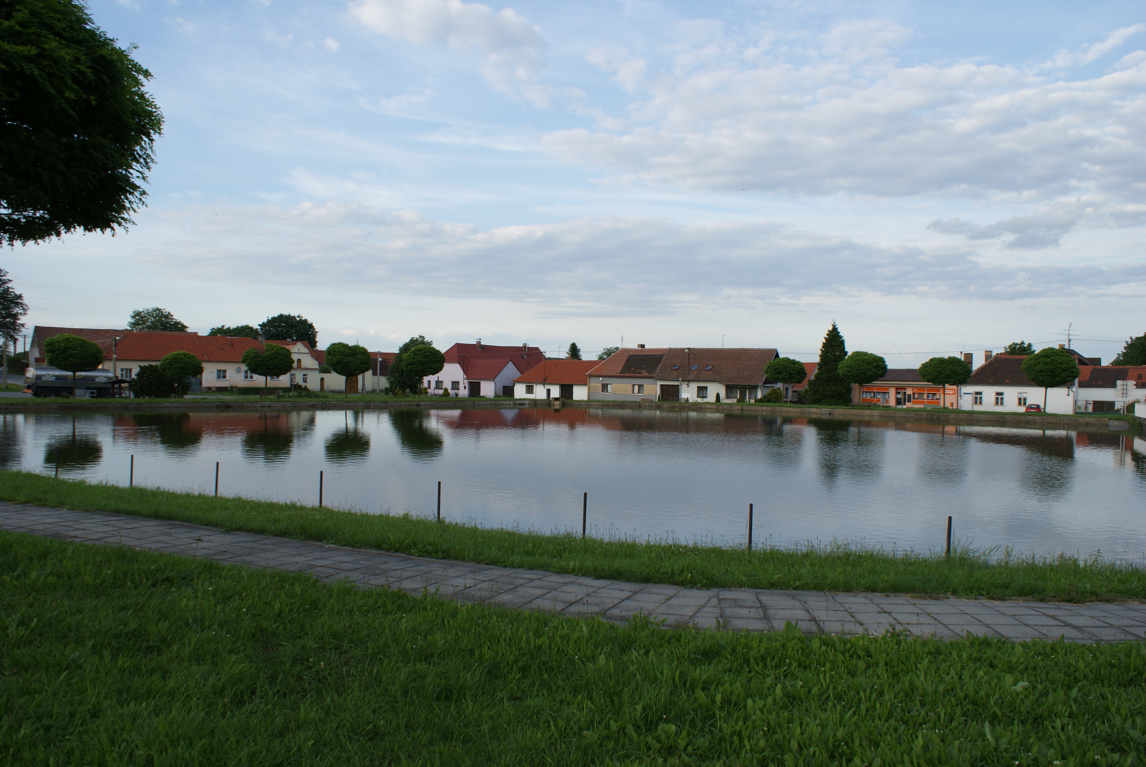 Drahonice, village in Strakonice district, Czech Republic, village common Česky: Drahonice, okres Strakonice, náves